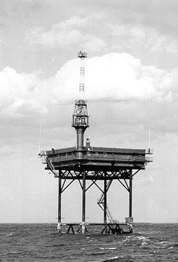 Buzzards Bay Entrance Light, original Texas Tower, about 1961. Massachusetts, USA